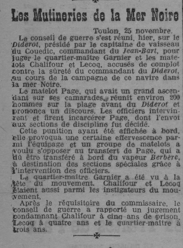 Extract of Express du midi